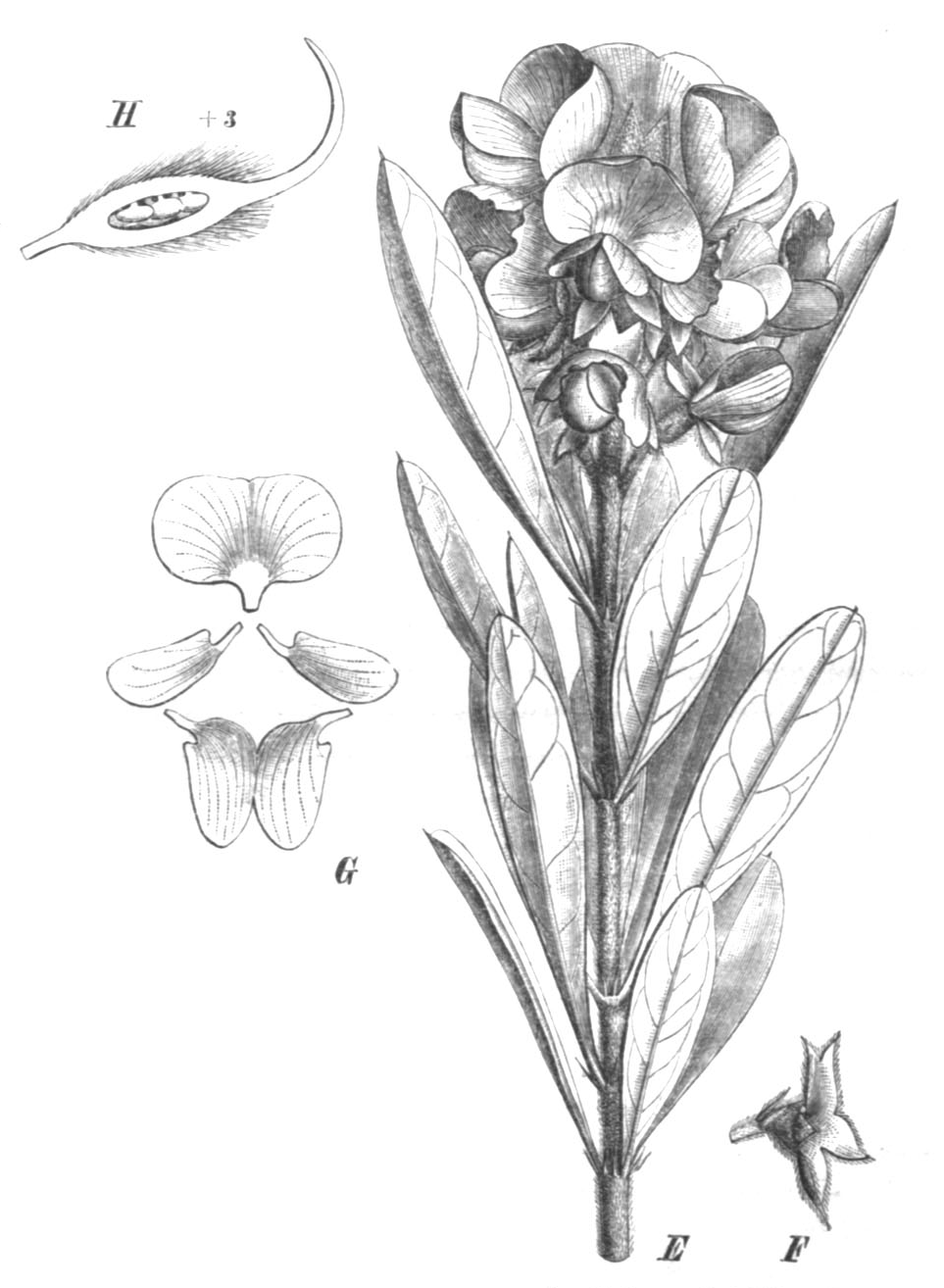 Illustration from book